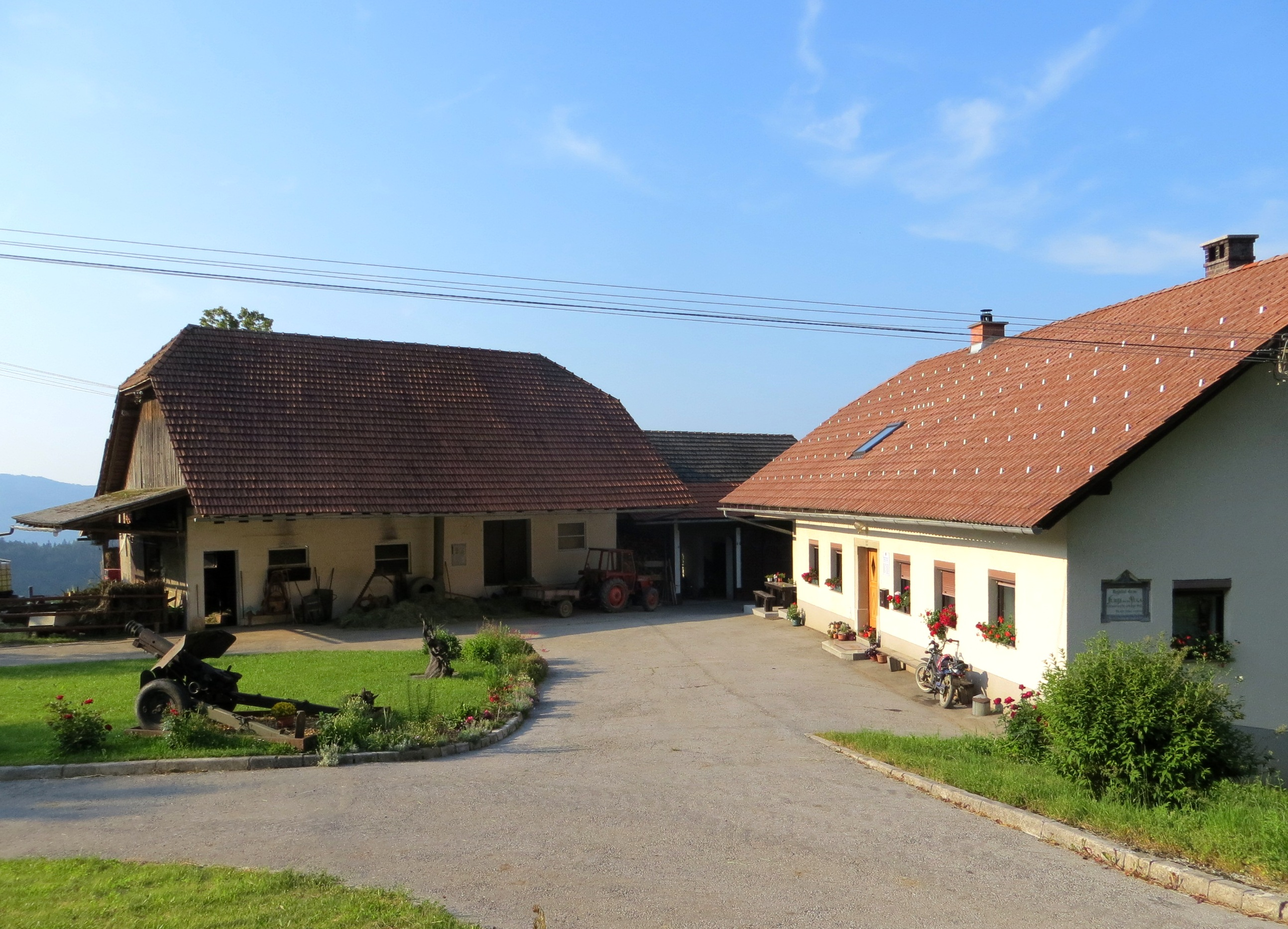 The Vehovec Farm in Zagorica pri Dolskem, Municipality of Dol pri Ljubljani, Slovenia; birthplace of Jurij Vega (1754–1802)